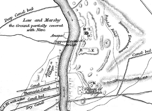 Map of the site of Babylon prior to its excavation later in the 19th century.